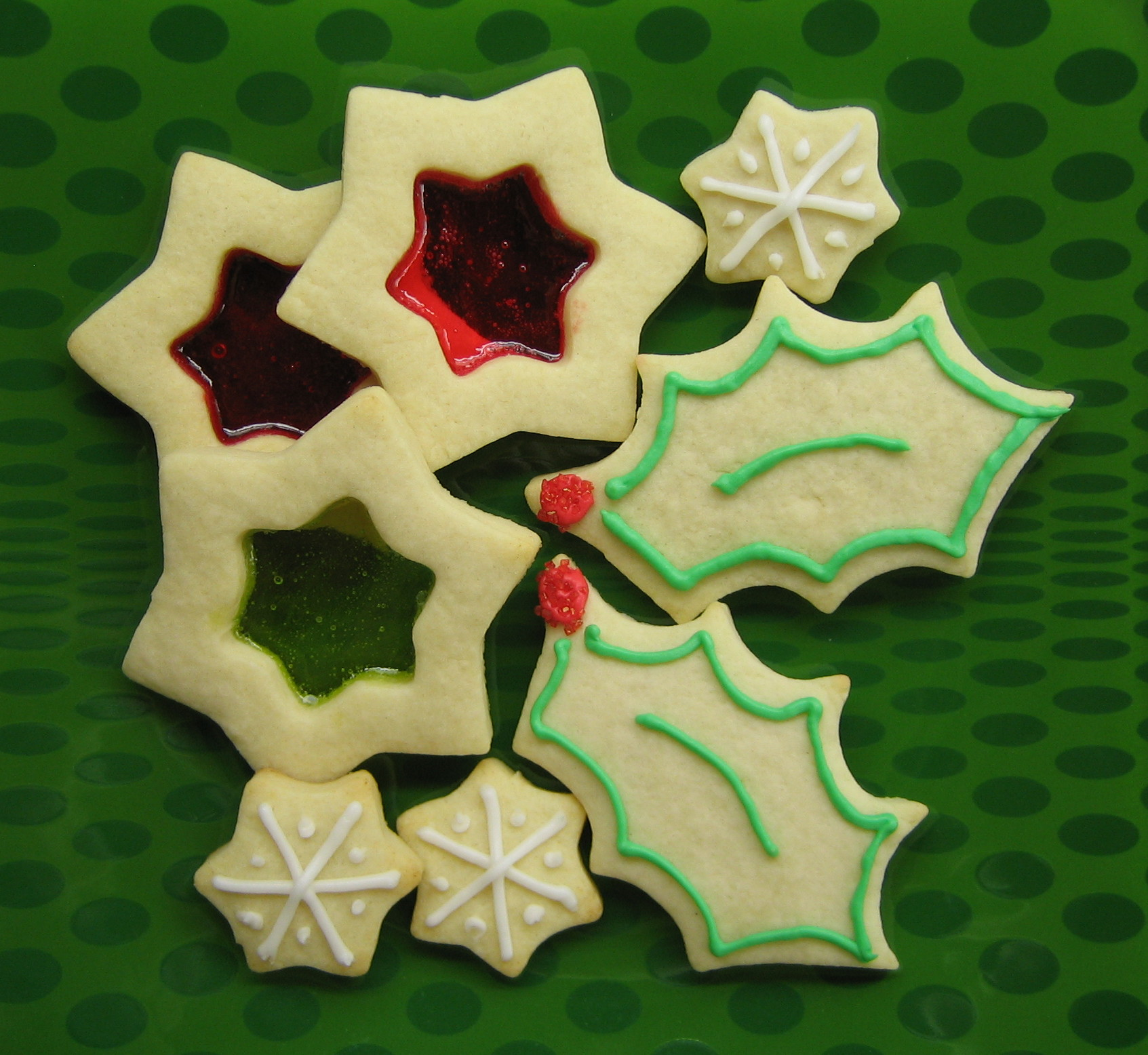 My first attempt at fancy, schmancy Christmas cookies. Mmmmmm.